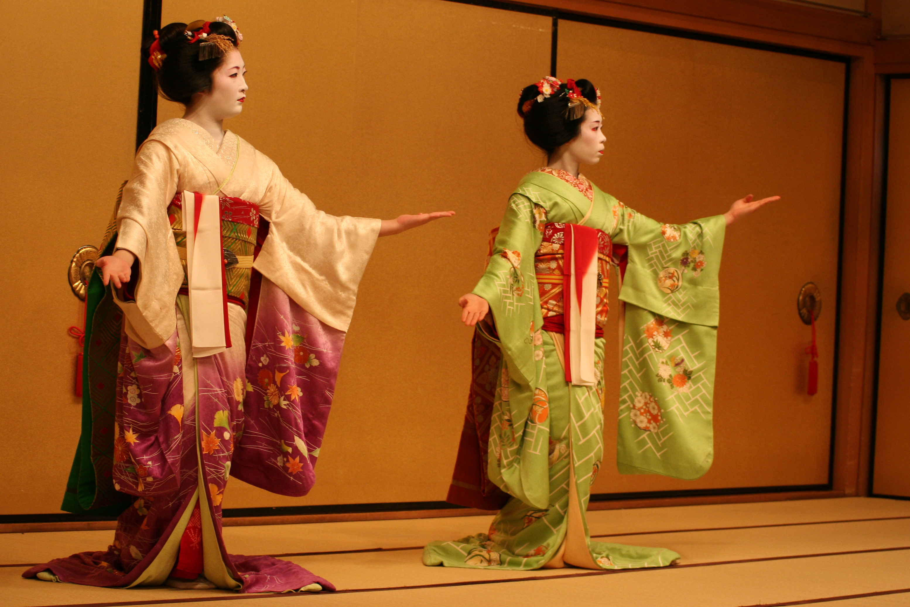 Two maiko performing in Gion. *The lady on the left likely has more experience than the lady on the right; this is evidenced by her white collar (in contrast to the red collar on the right, indicating her maiko/apprentice geisha status).*